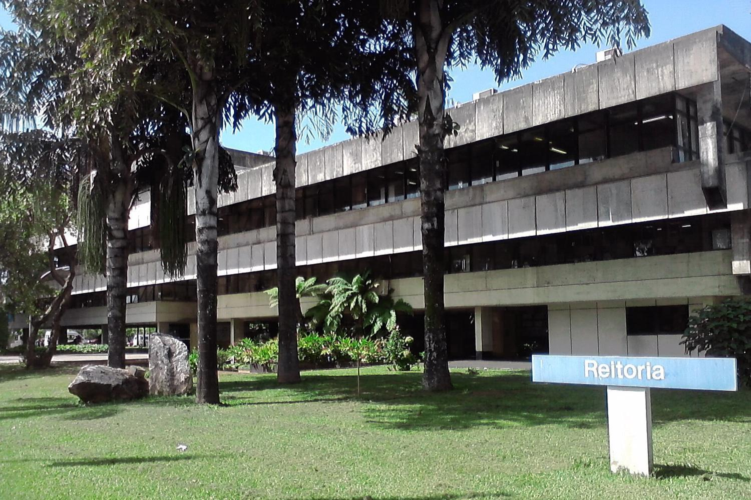 UnB Rectory